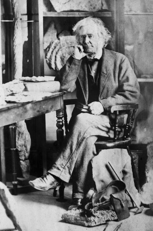 Photograph, Sir William Edmond Logan, geologist, Montreal, QC, 1865, William Notman (1826-1891). Silver salts on paper mounted on paper - Albumen process - 8.5 x 5.6 cm